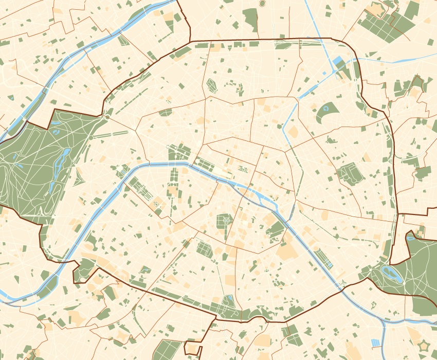 Plan by ThePromenader (own work)